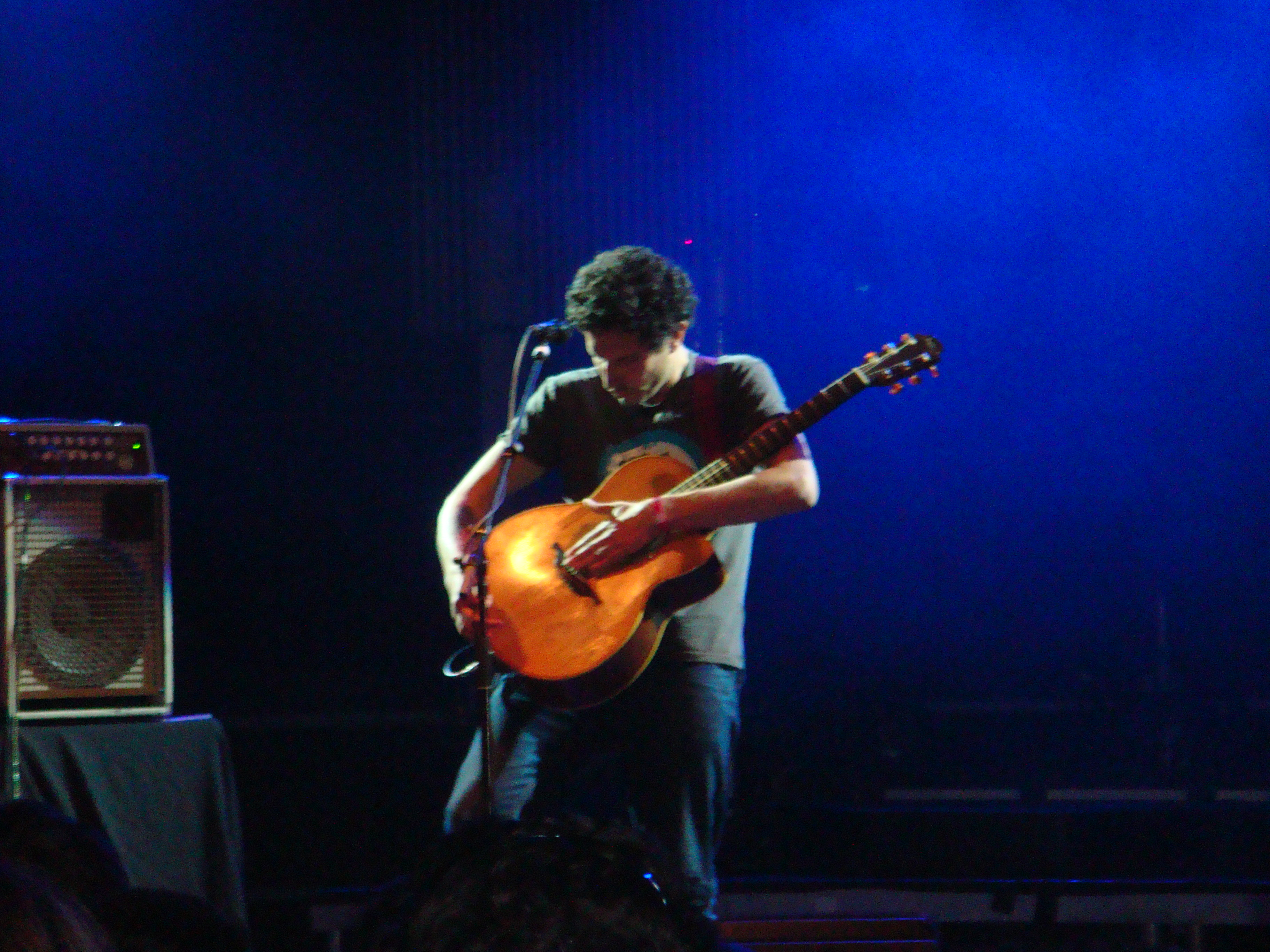 Yoav, in Carribana Festival, Nyon Switzerland.